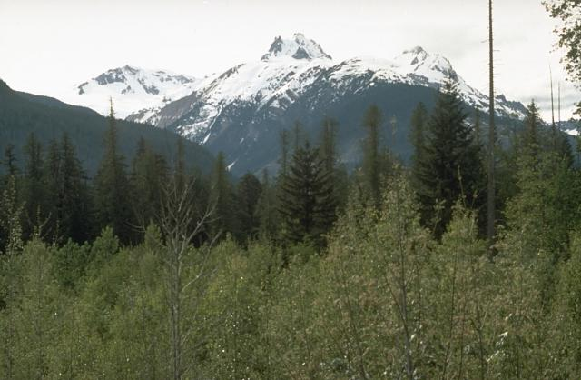 The Mount Meager volcanic complex. Summits from left to right are Capricorn Mountain, Mount Meager, and Plinth Peak.